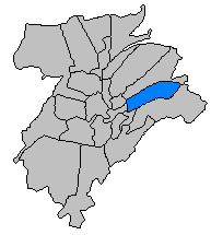 Map of Luxembourg City, Luxembourg, with the boundaries of the city's twenty-four quarters demarcated and the quarter of Cents highlighted in blue.